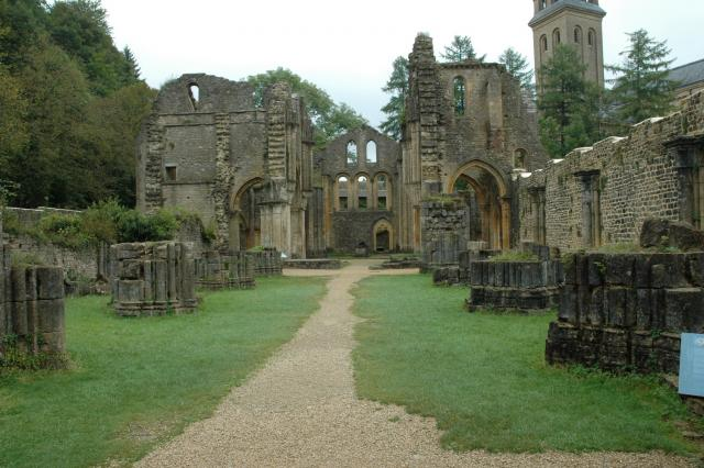 Abbaye Orval Ruins. Photo by Philip Leonard. September 2005.